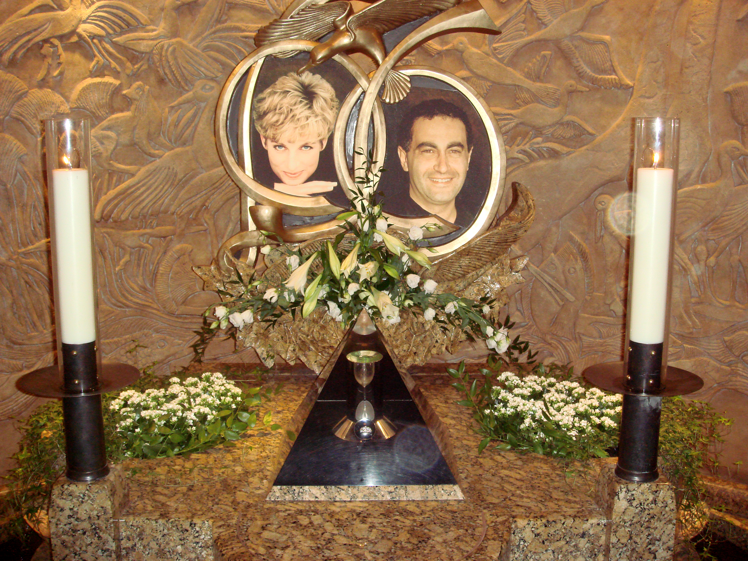 One of the two memorials to Diana, Princess of Wales, and Dodi Al-Fayed, located in the Harrods department store in London. The pyramid-shaped display holds a wine glass still smudged with lipstick from Diana's last dinner as well as an engagement ring Dodi purchased (presumed for Diana) the day before they died.